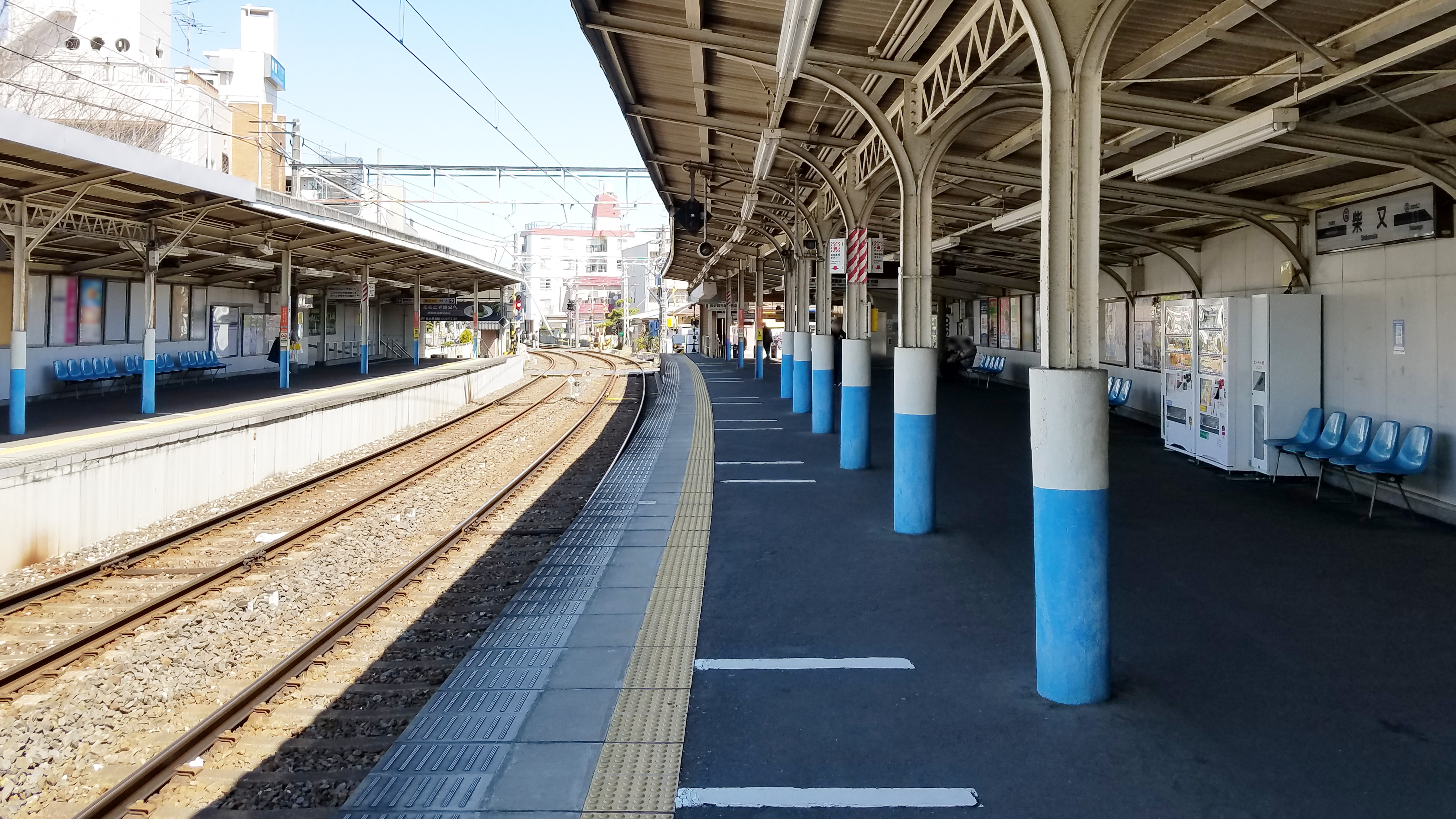 The platforms at Shibamata Station on the Keisei Kanamachi Line in Katsushika Ward, Tokyo, Japan